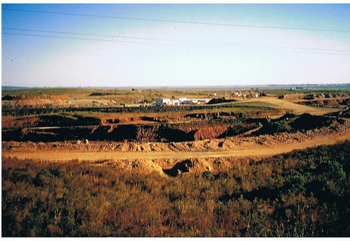 San Gregorio goldmine, open pit